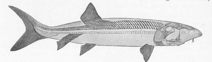 Chondrosteus acipeenseroides Egerton. Family Chondrosteidae Subject: Acipenseriformes Tag: Fish